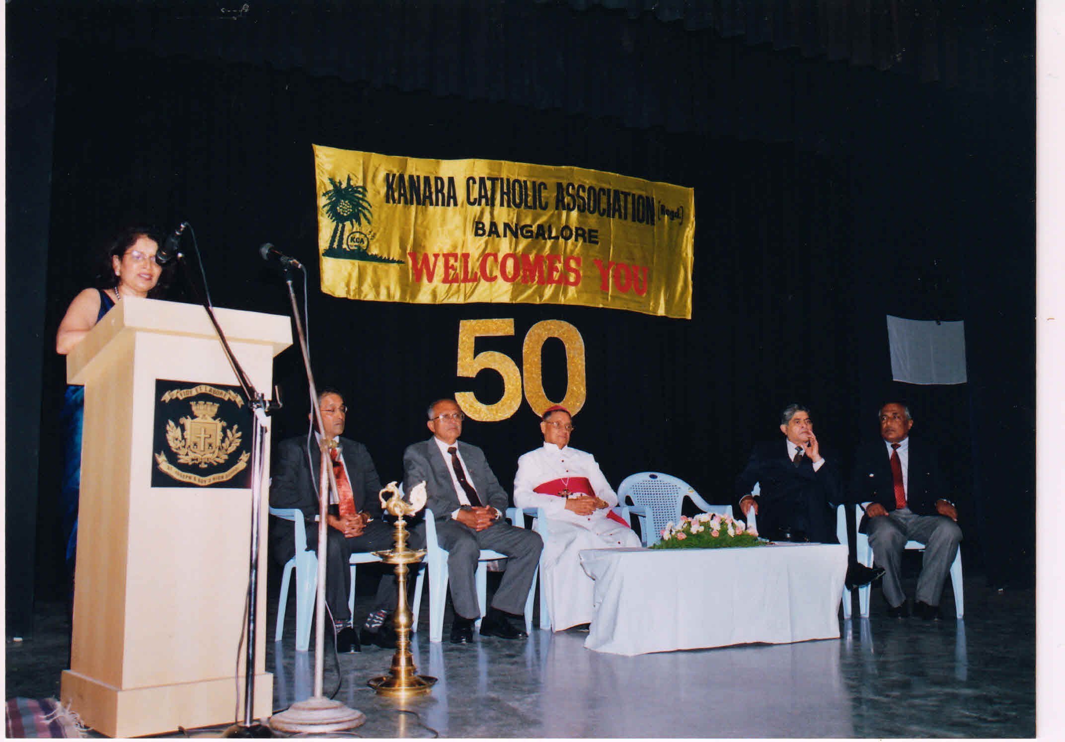 Innaugral event for the start of the 50th anniversary of KCA in the Presence of the Archbishop Emeritus of Bangalore, Ivan Pinto